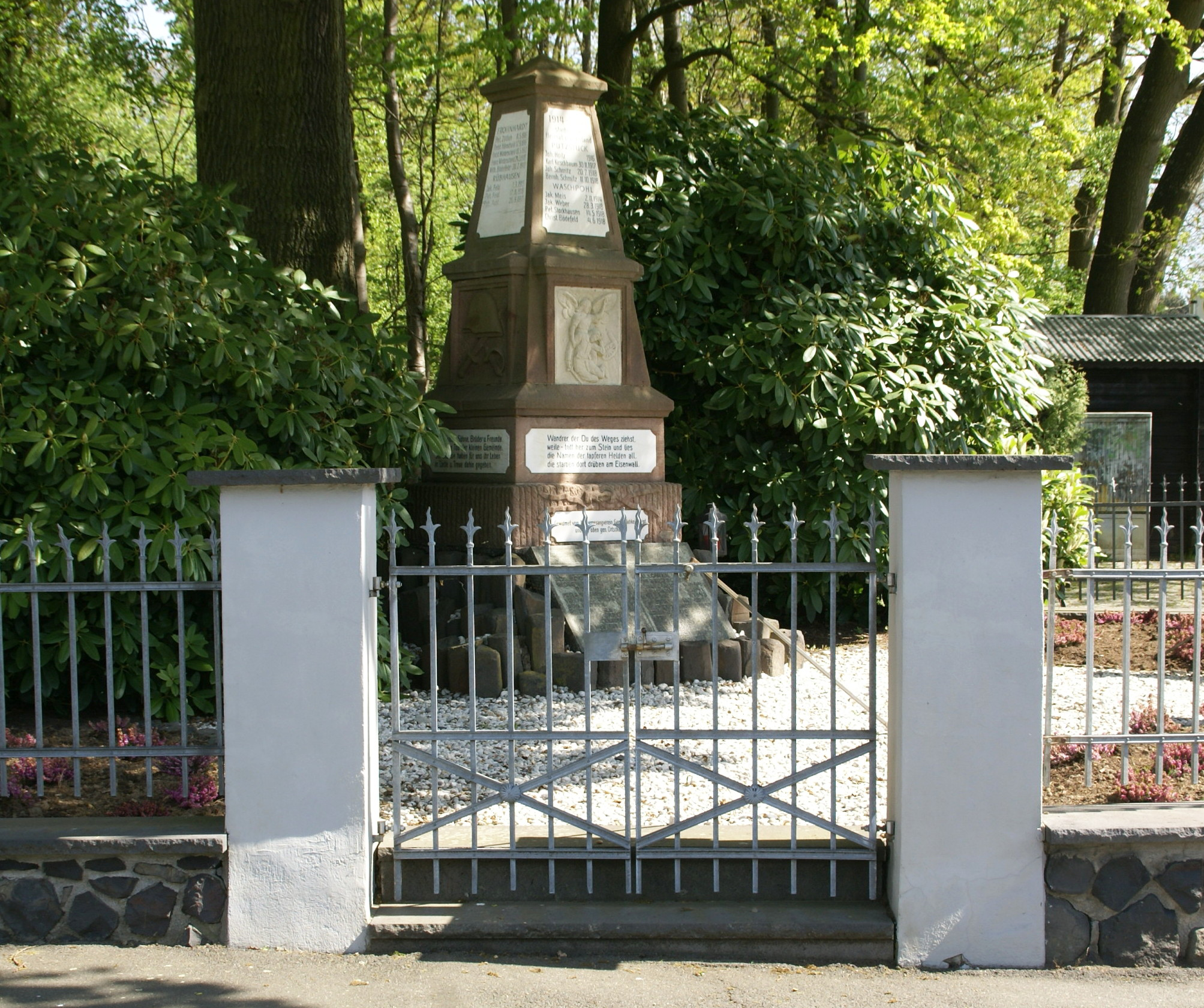 War memorial in Sand at the corner of Oberpleiser Straße and Pützstücker Straße in memory of the soldiers from several villages of this region who have been killed in the world wars 1914-1918 and 1939-1945